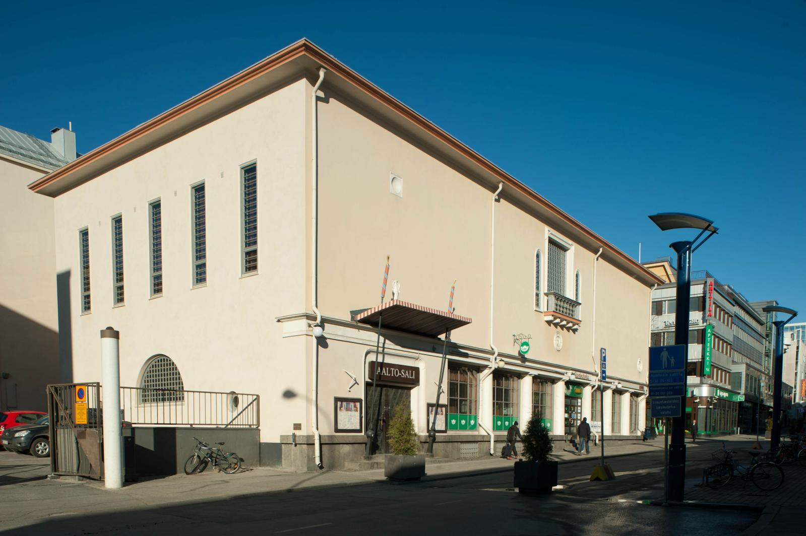 Jyväskylä Workers' Club by Alvar Aalto in Finland